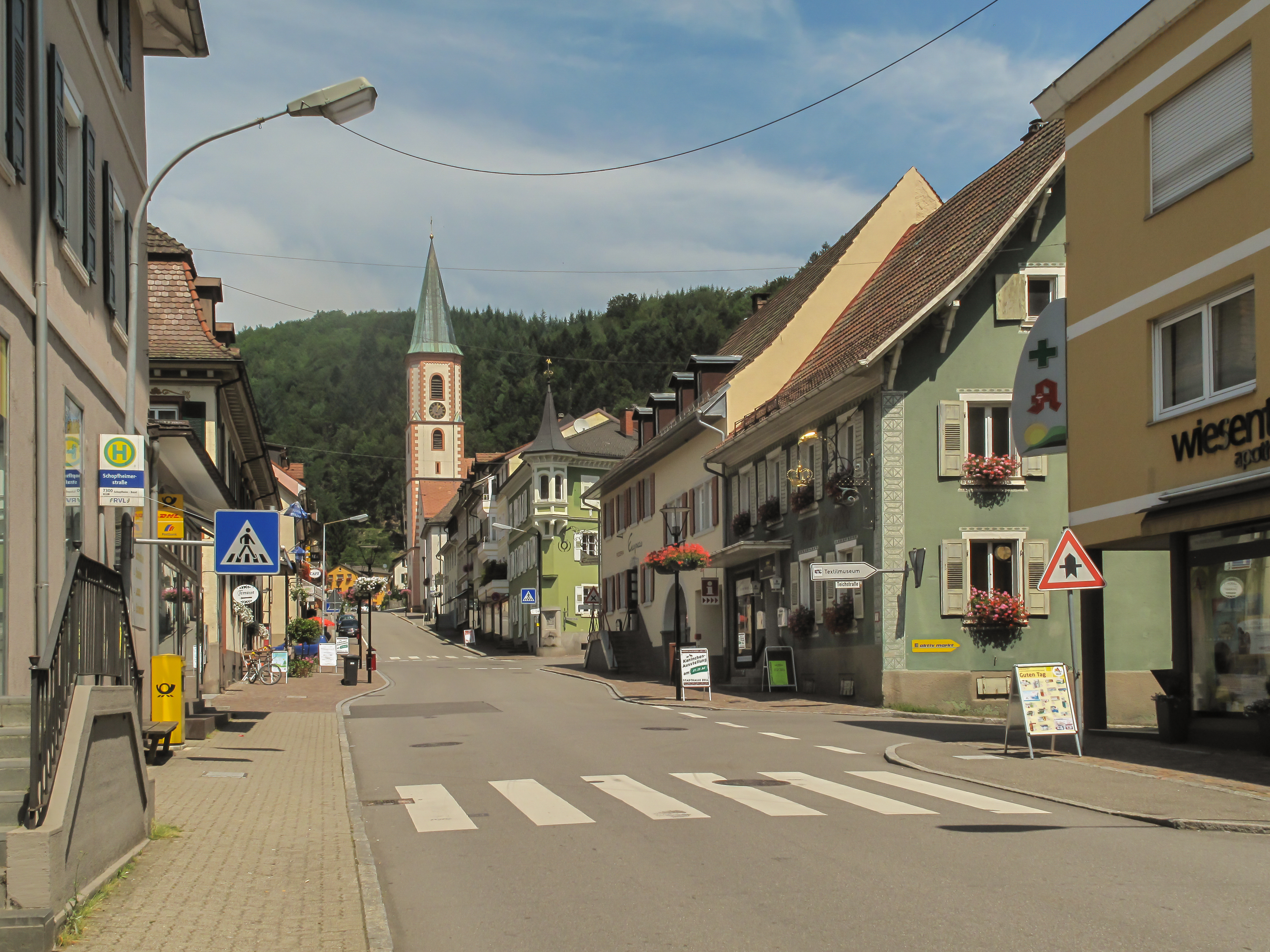 Zell im Wiesental, town view with catholic Stadtpfarrkirche